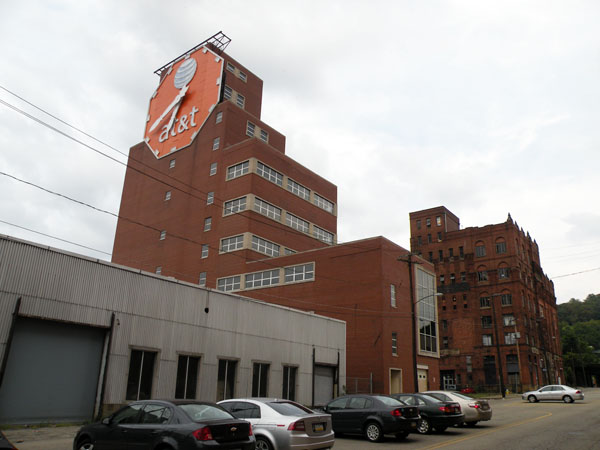 Picture of the old Duquesne Brewery's Clock (shown with AT&T logo on face) located at Mary and 21st Streets in the South Side Flats neighborhood of Pittsburgh, Pennsylvania, on August 14, 2010. The clock was the largest single-face clock in the world when it was built in 1933. The former Duquesne Brewing Company building that the clock is on is from the 1950s, and the building behind it is the old Duquesne Brewery building from 1899. The 60-by-60-foot (18 × 18 m) clock face, with a 35-foot (11 m) minute hand and a 25-foot (7.6 m) hour hand, both of laminated aluminum, is nearly twice the size of London's Big Ben, and was built in Georgia by Audichron for $12,500 and shipped to Pittsburgh. The clock, designed by Audichron founder John L. Franklin, is driven by a 1.25-horsepower (0.93 kW) Janett motor. Originally located on Mount Washington, the clock's face was used as advertising for a succession of beverages, including Coca-Cola, and Ballantine, Carling, and Schlitz beers. By 1960, the Duquesne Brewing Company had bought the sign and installed it in its current location in the South Side. The Pittsburgh Brewing Company paid $44,000 to repair the clock when it took over in 1999, paying $5,000 a month to show its logo on the face. In 2002, Equitable Gas paid to have their name placed on the clock. In October 2009, AT&T took over the rights to advertise on the clock and has redesigned the face to display the traditional blue and white AT&T logo.